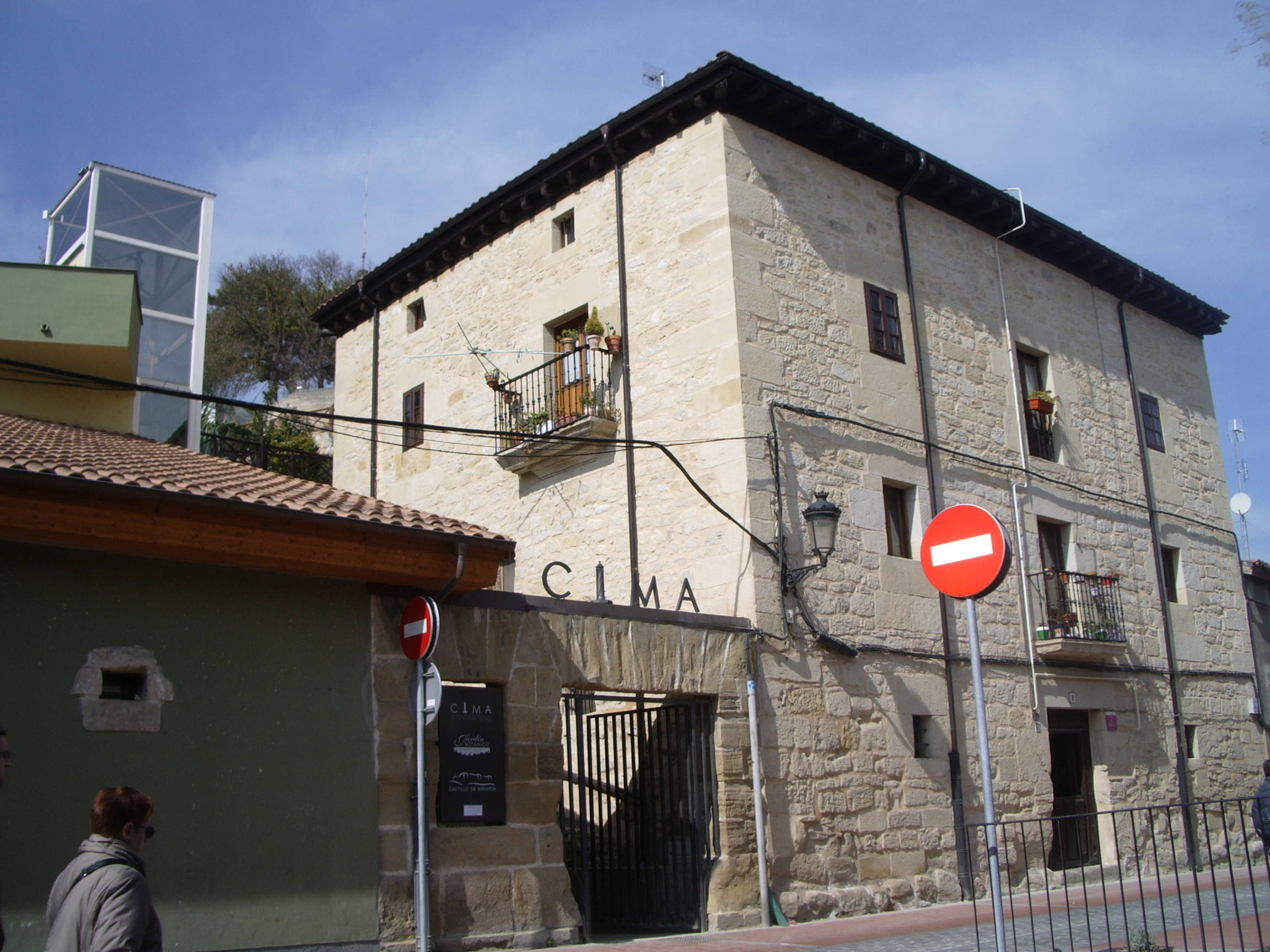 Interpretation Centre of the castle and the botanic garden in Miranda de Ebro.